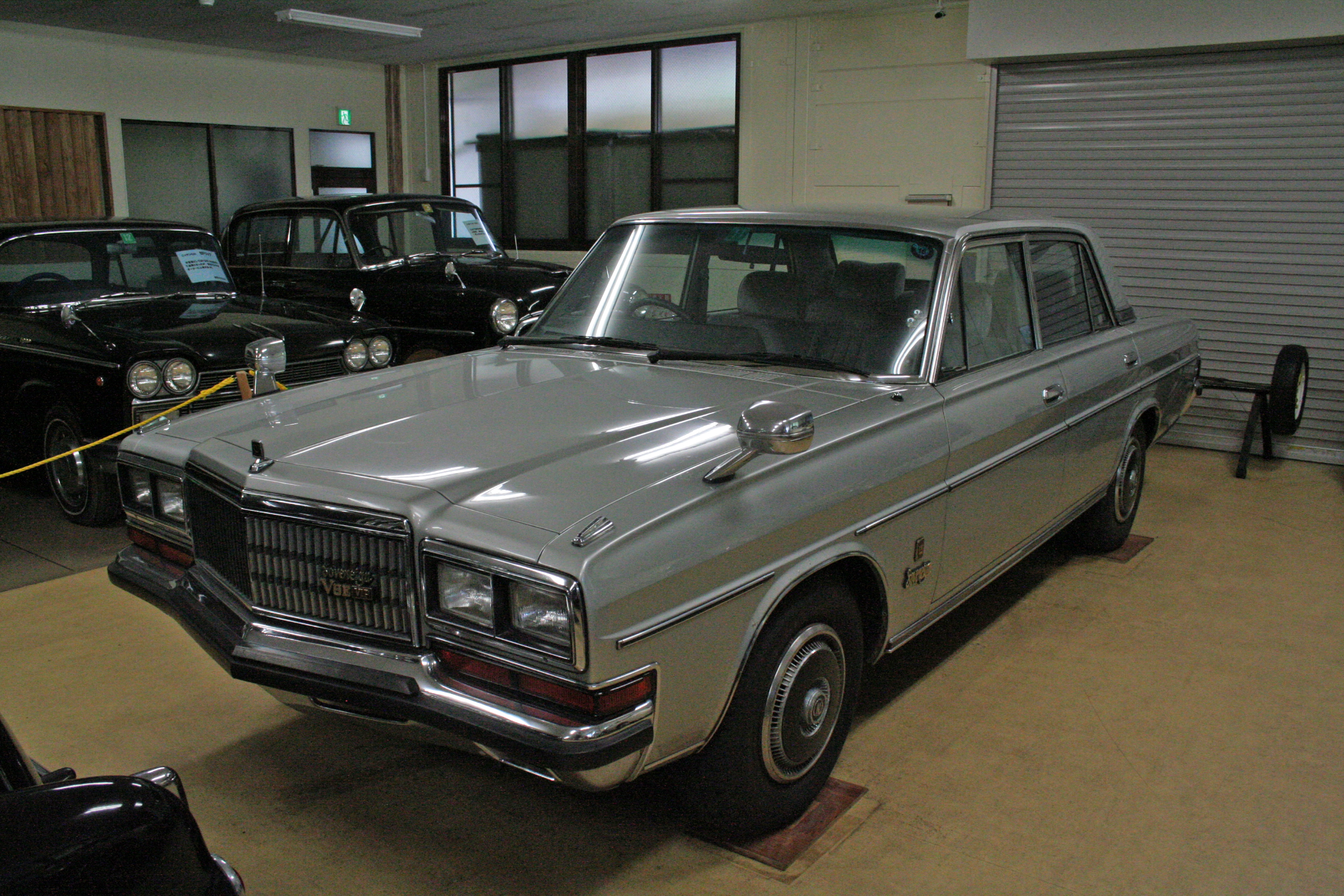 Nissan President Sovereign V8E VIP at the Hyogo Prefectural Museum, front left view. This is a later model (250) with square headlights.